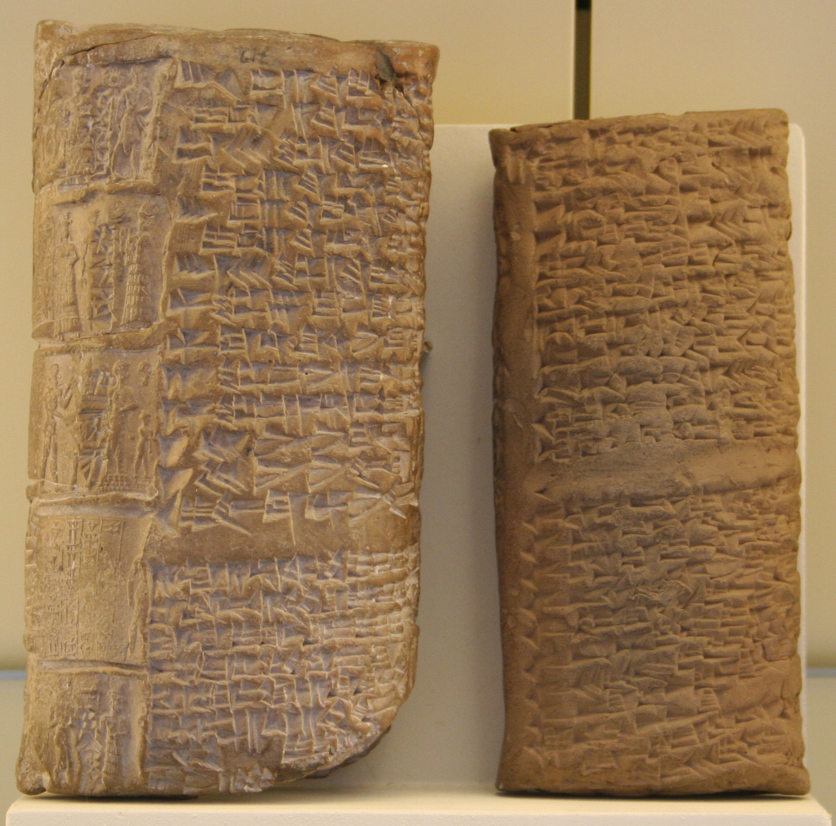 Vorderasiatisches Museum (Near East Museum), Berlin. Cuneiform tablet of the old babylonain period (c. 1800) with its container printed with cylinder seals.